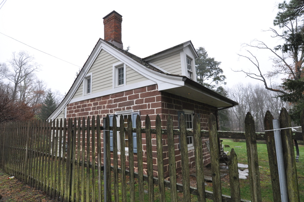 The surviving fragment of the Achenbach House in Saddle River, New Jersey. Most of the house was destroyed by fire.